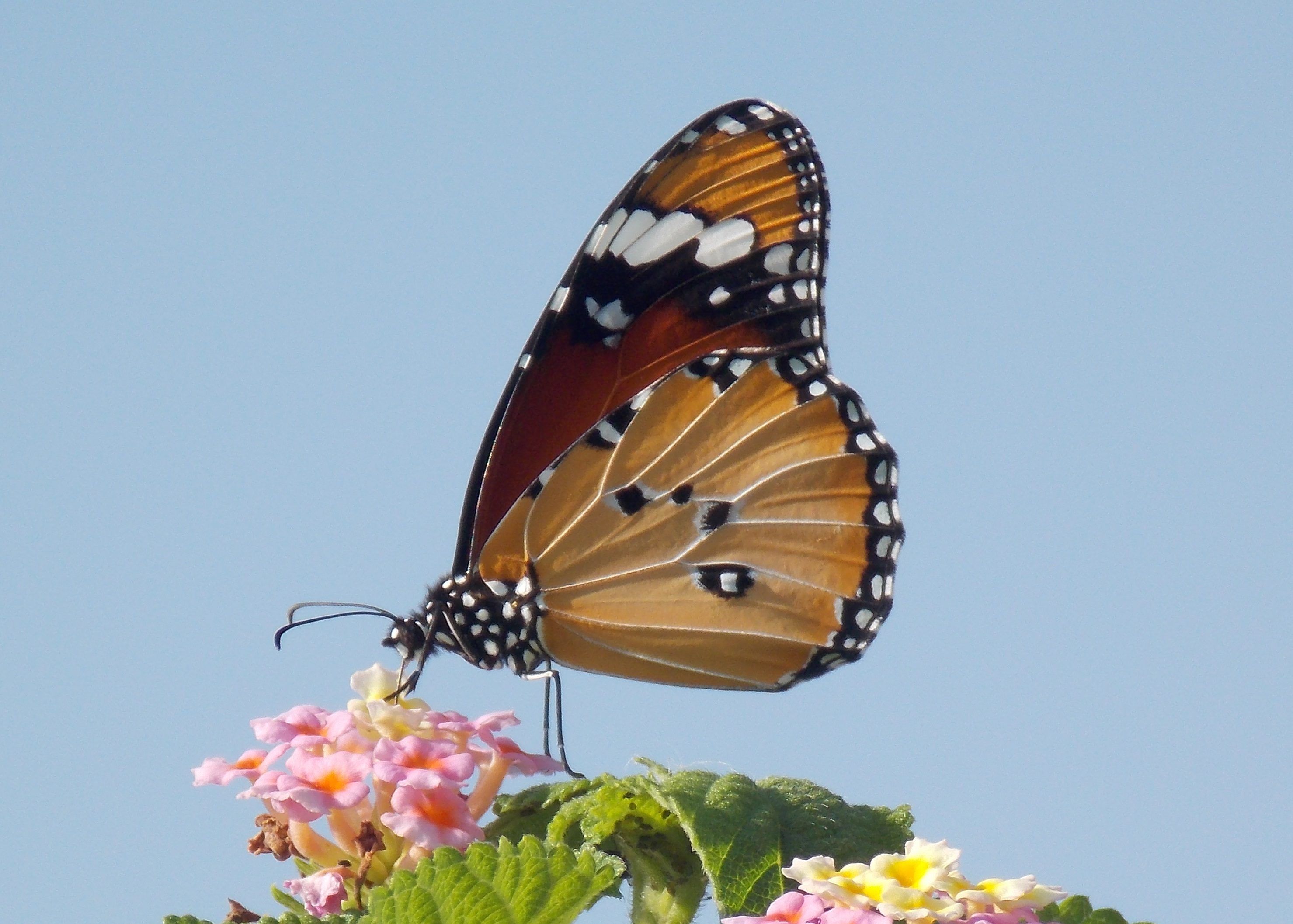 Plain Tiger (Danaus chrysippus) from Taxila, Rawalpindi, Punjab Pakistan.